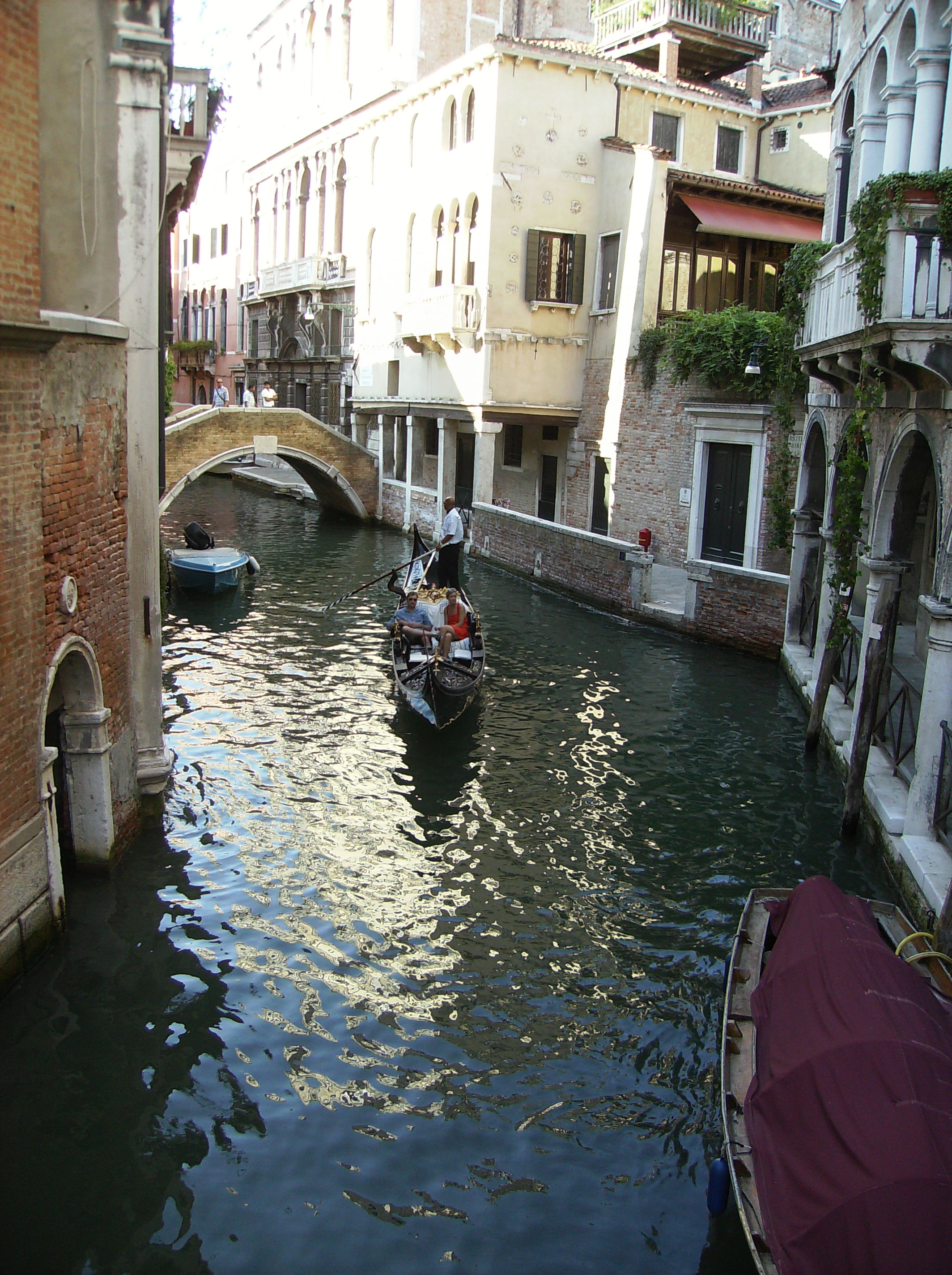 Rio di San Canciano - after the bridge on the right side from right to left: Palazzo Widmann Rezzonico, Palazzo Pasqualigo, Cannaregio vENICE